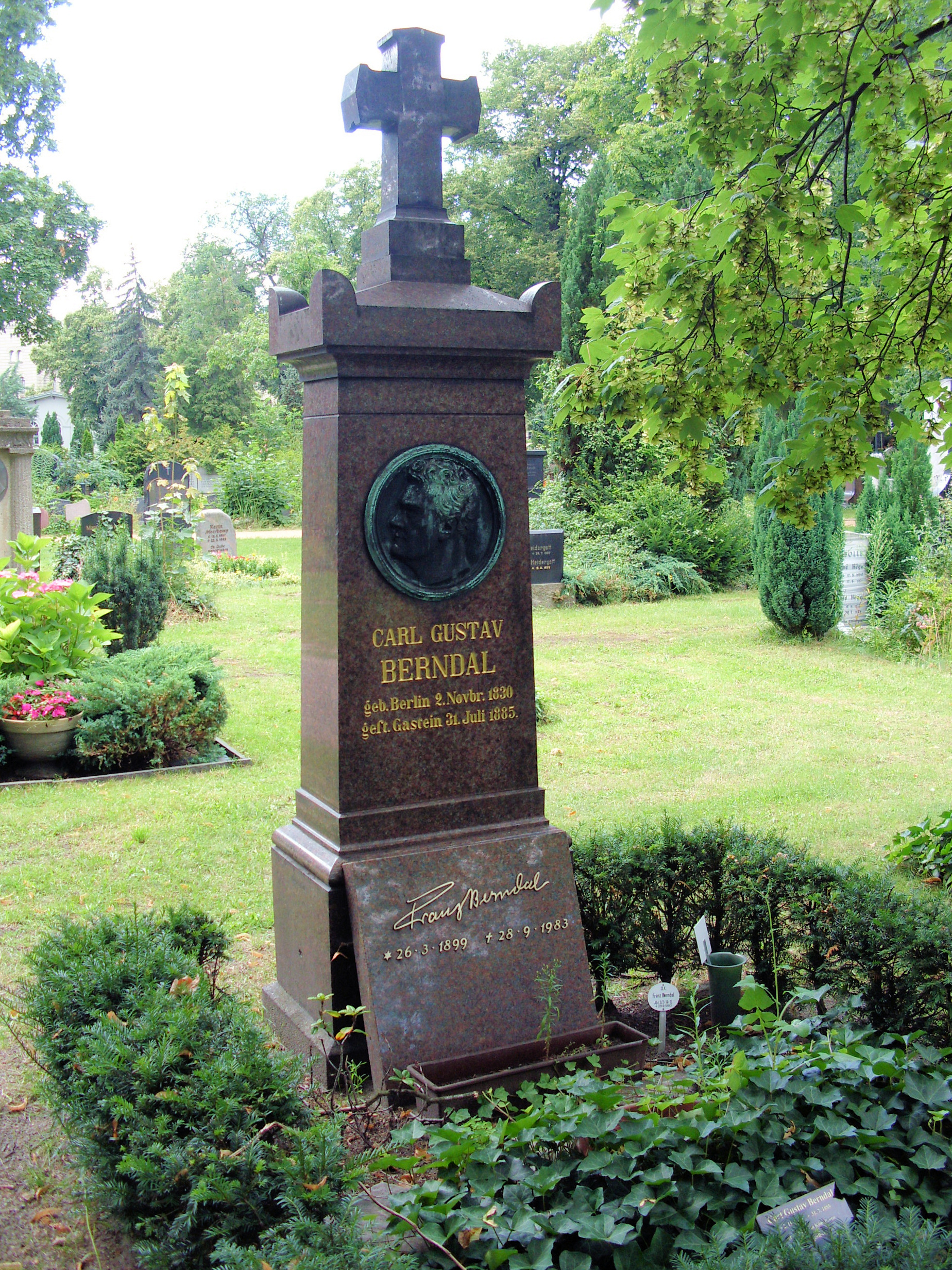 Grave of Carl Gustav Berndal in Berlin-Kreuzberg